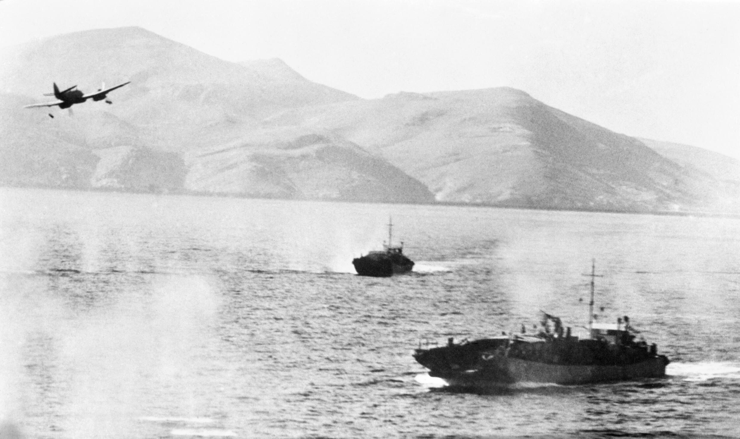 Royal Air Force Operations in Malta, Gibraltar and the Mediterranean, 1940-1945. A Bristol Beaufighter releases its bombs towards the further of two German flak vessels attacked by aircraft of No. 201 Group, south of the island of Kalymnos in the Dodecanese.